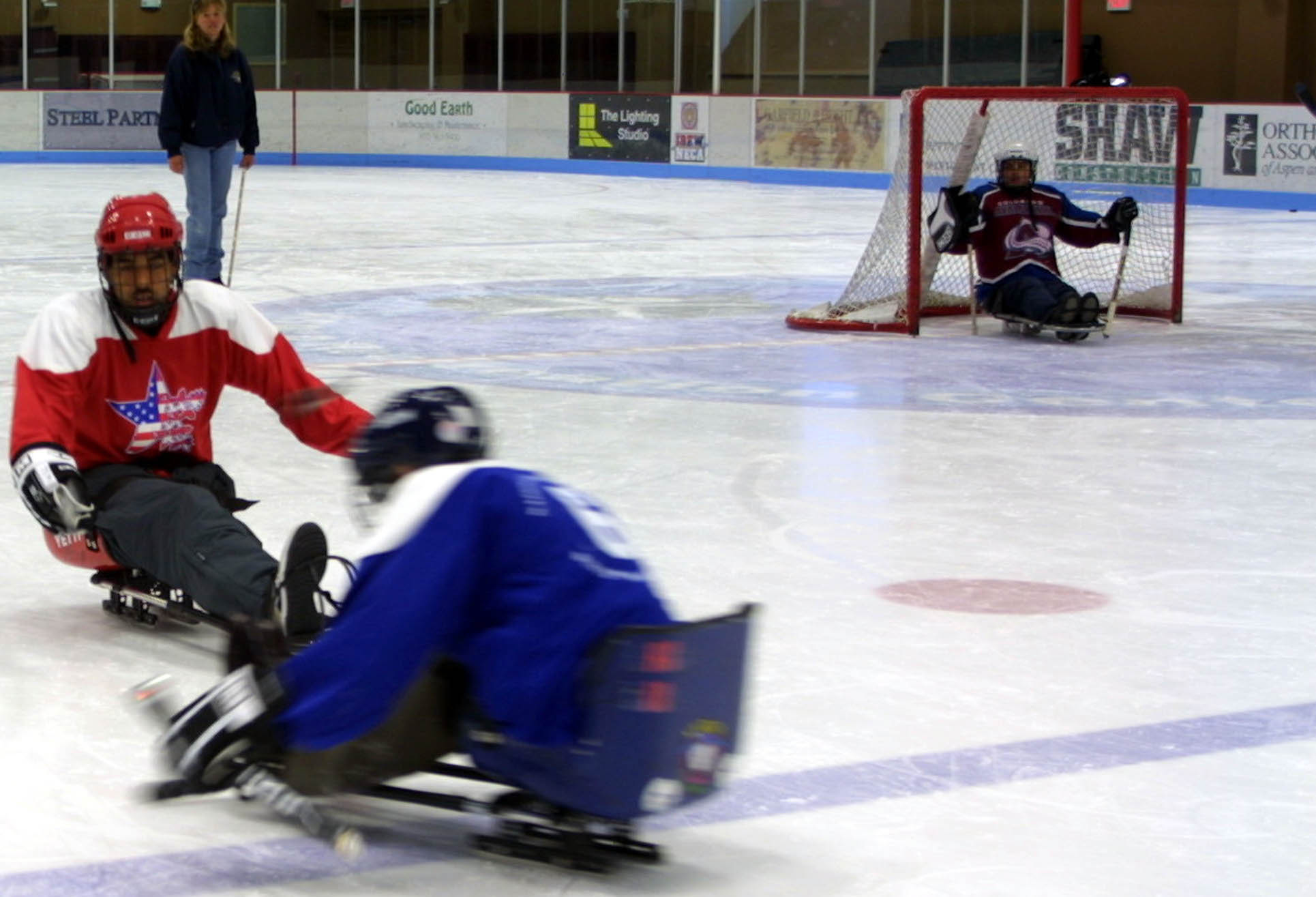 Hockey played on ice sleds by the disabled